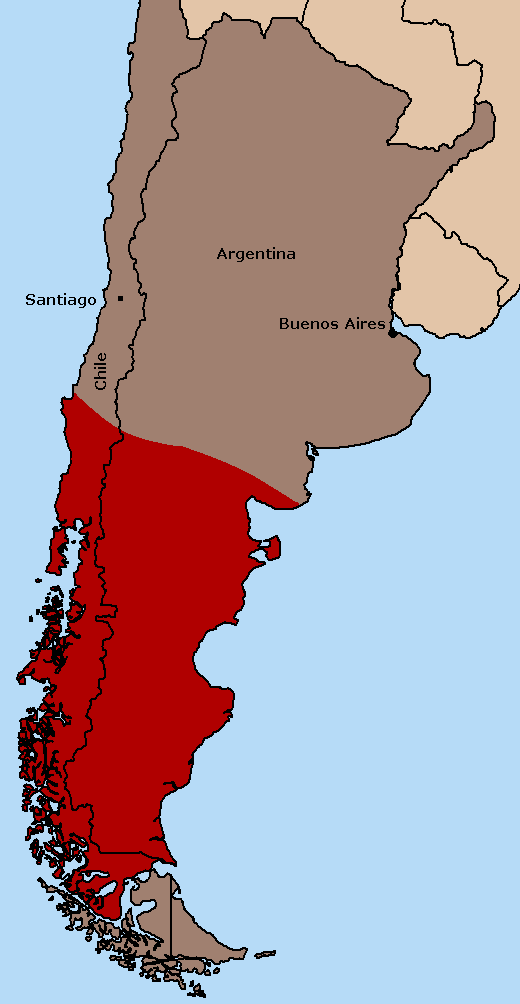 Reclamated area by Kingdom of Araucania and Patagonia (in red) Límites: Norte: Río Bío-Bío y Río Negro Sur: estrecho de Magallanes Este: Océano Atlántico Oeste: Océano Pacífico Source: Image:Argentina provinces, blank.png